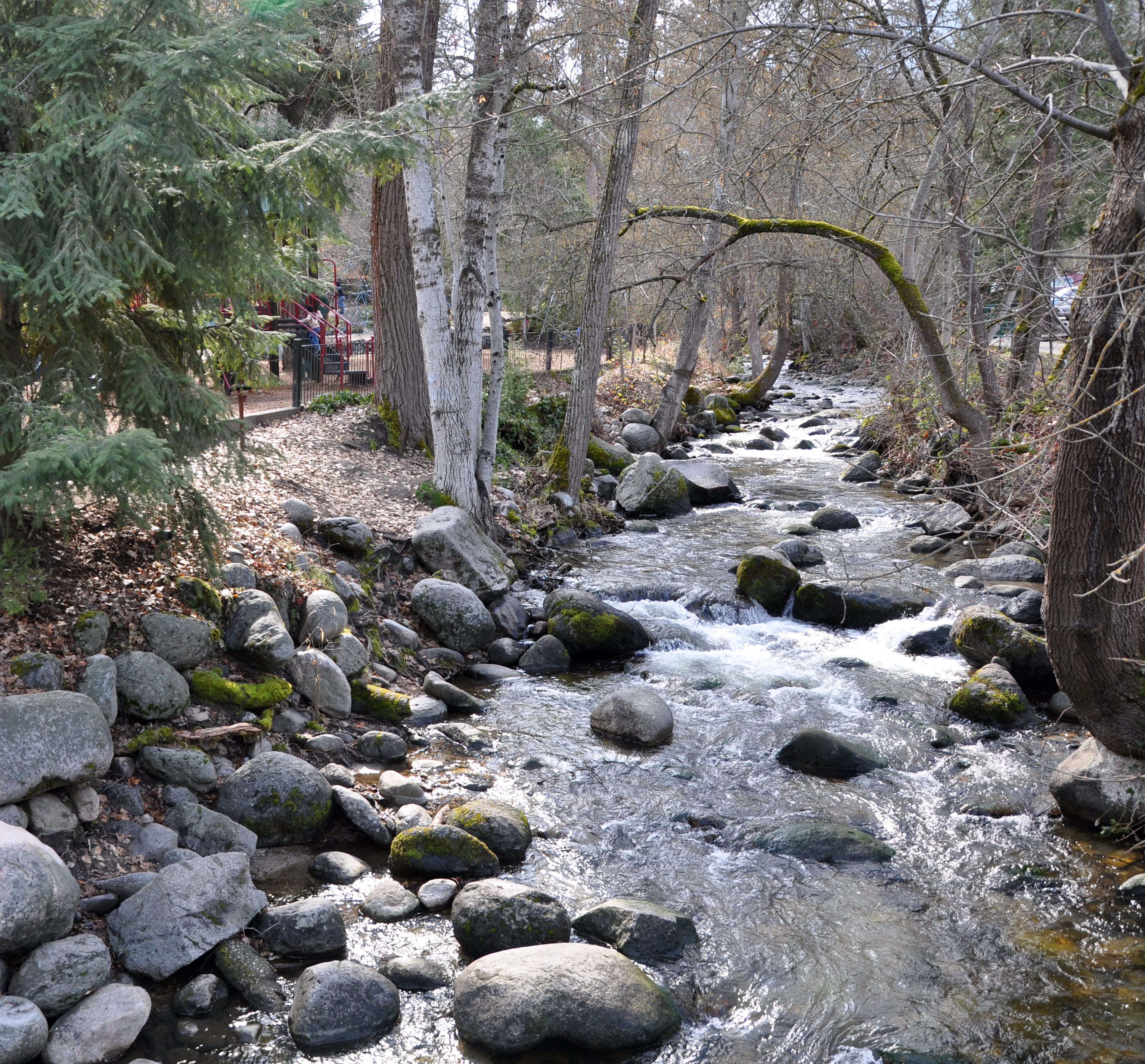 Ashland Creek flowing through Lithia Park in Ashland in the U.S. state of Oregon